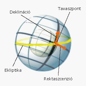 A diagram for Equatorial coordinate system Az angol/német Wikipédiából származó AstroDeclinationRightascension.png magyarított verziója.